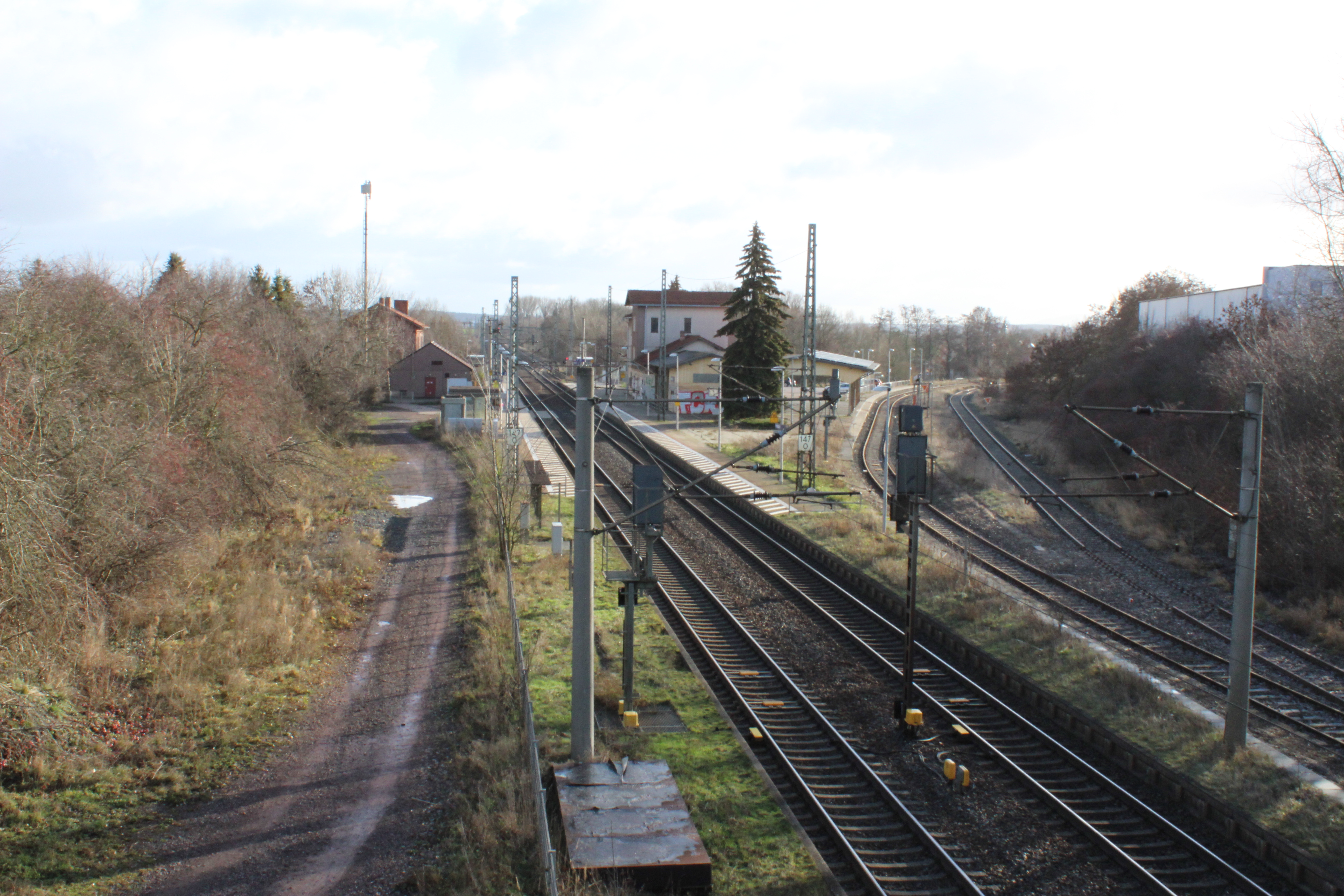 train station Fröttstädt